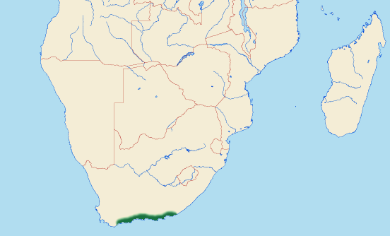 Knysna-Woodpecker distrubution map